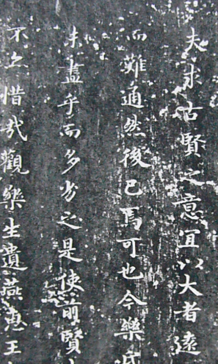 Rubbing of Yue Yi lun (detail): calligraphy by Wang Xizhi(ACE303?-361), China